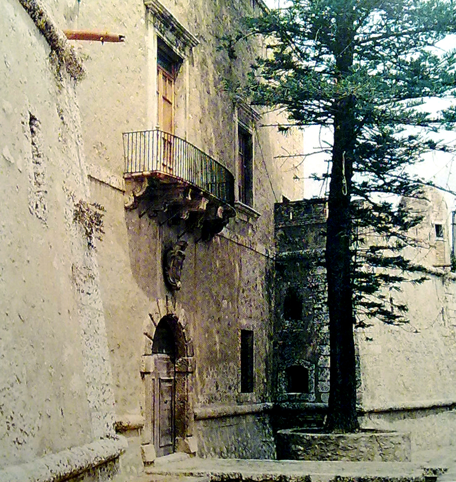 Main entrance of the castle of Spadafora.